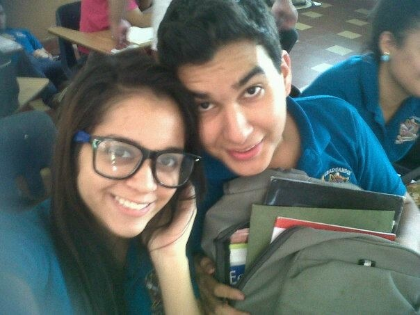 Panamanian Students